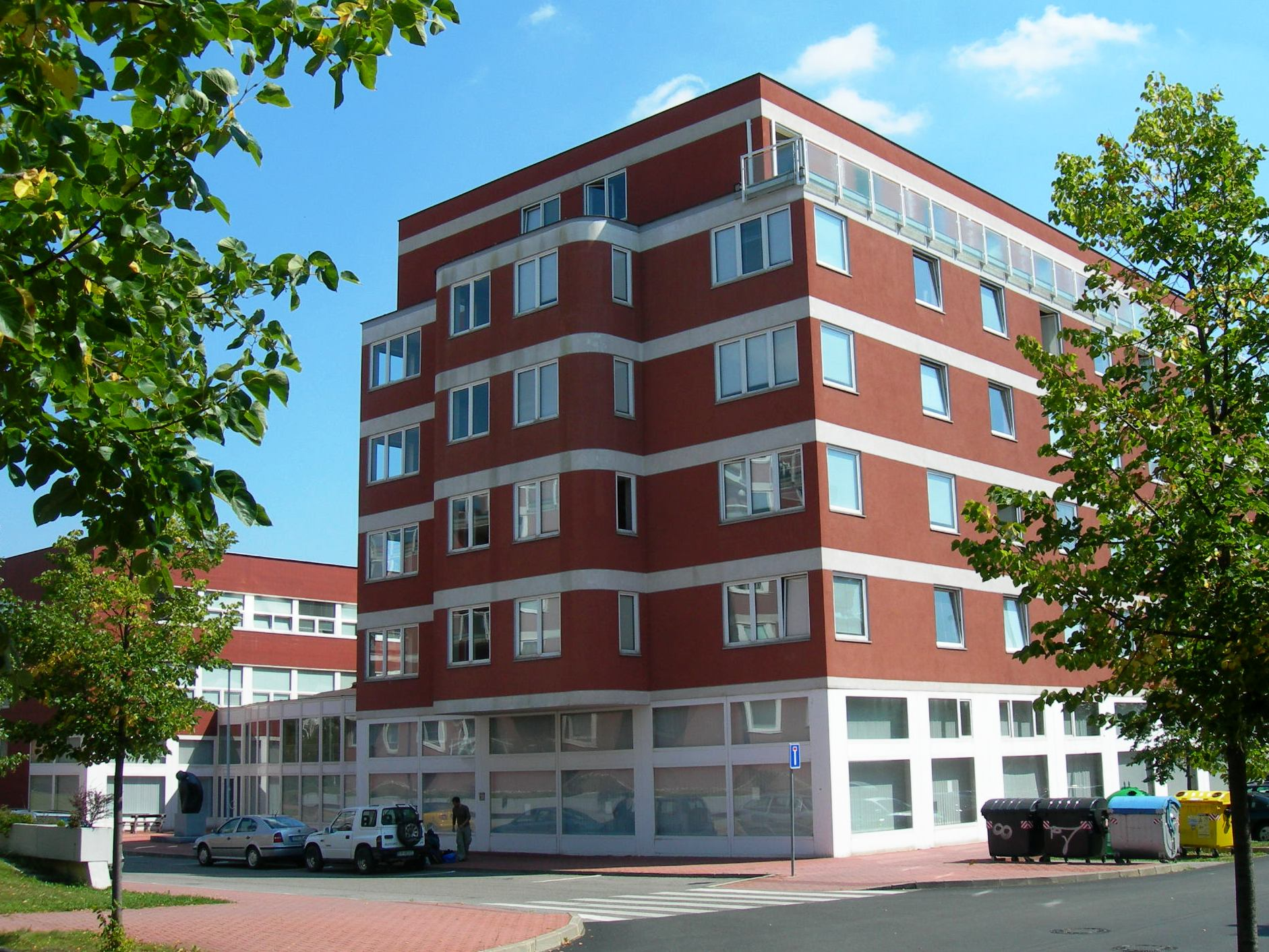 Charles University building, Praha Jinonice Fakulta humanitních studií.